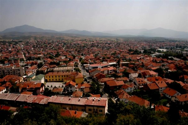 Radovis Panorama